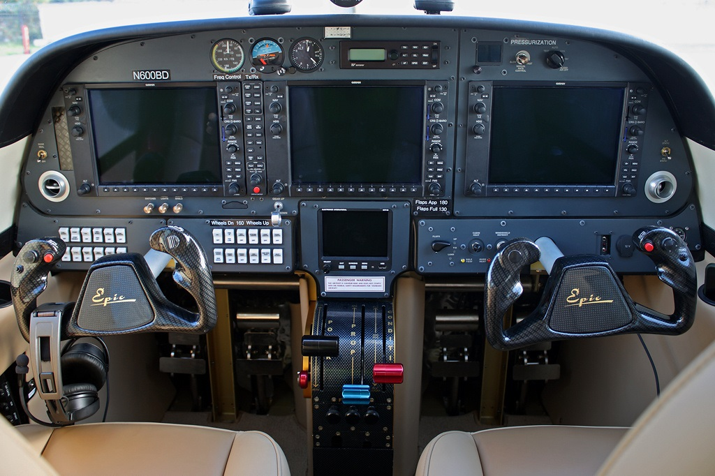 Flight from USA to Moscow via Nome, AK. Transit stop.